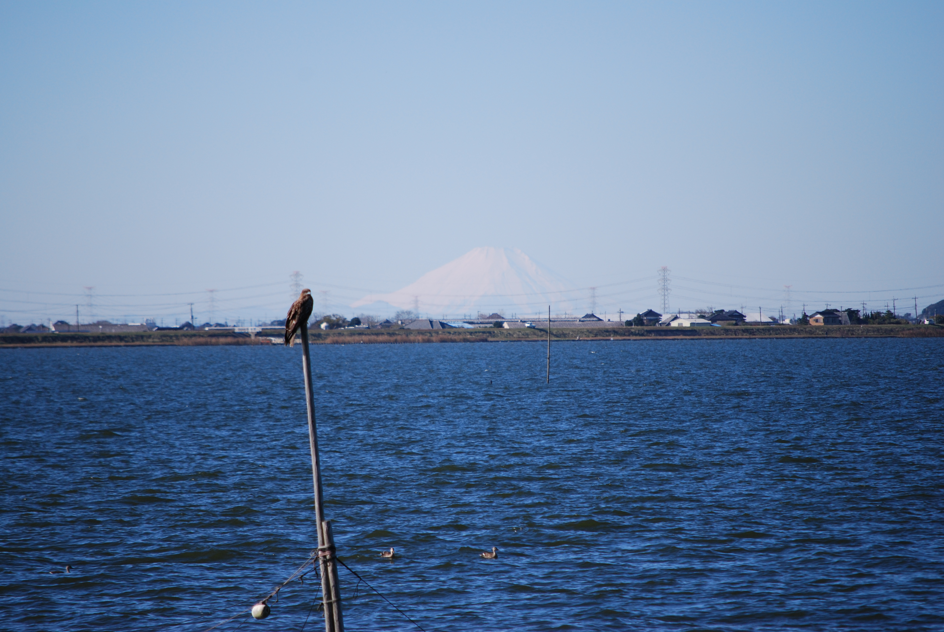 Lake Kasumigaura and Mt.Fuji and Hawk,Namegata-city,Japan